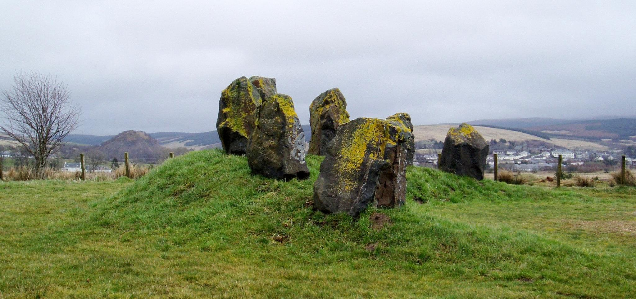 The 7 Standing Stones of Dalmellington. Pennyvenie coal bing visible to the left and Dalmellington itself to the right